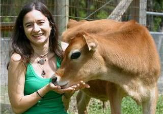 Lauren Ornelas and Nicholas